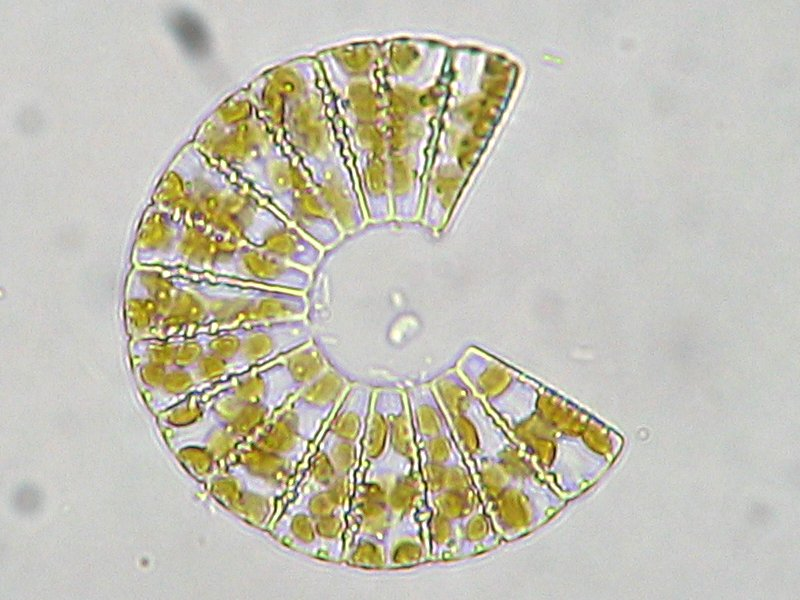 This work is free and may be used by anyone for any purpose. If you wish to use this content, you do not need to request permission as long as you follow any licensing requirements mentioned on this page.